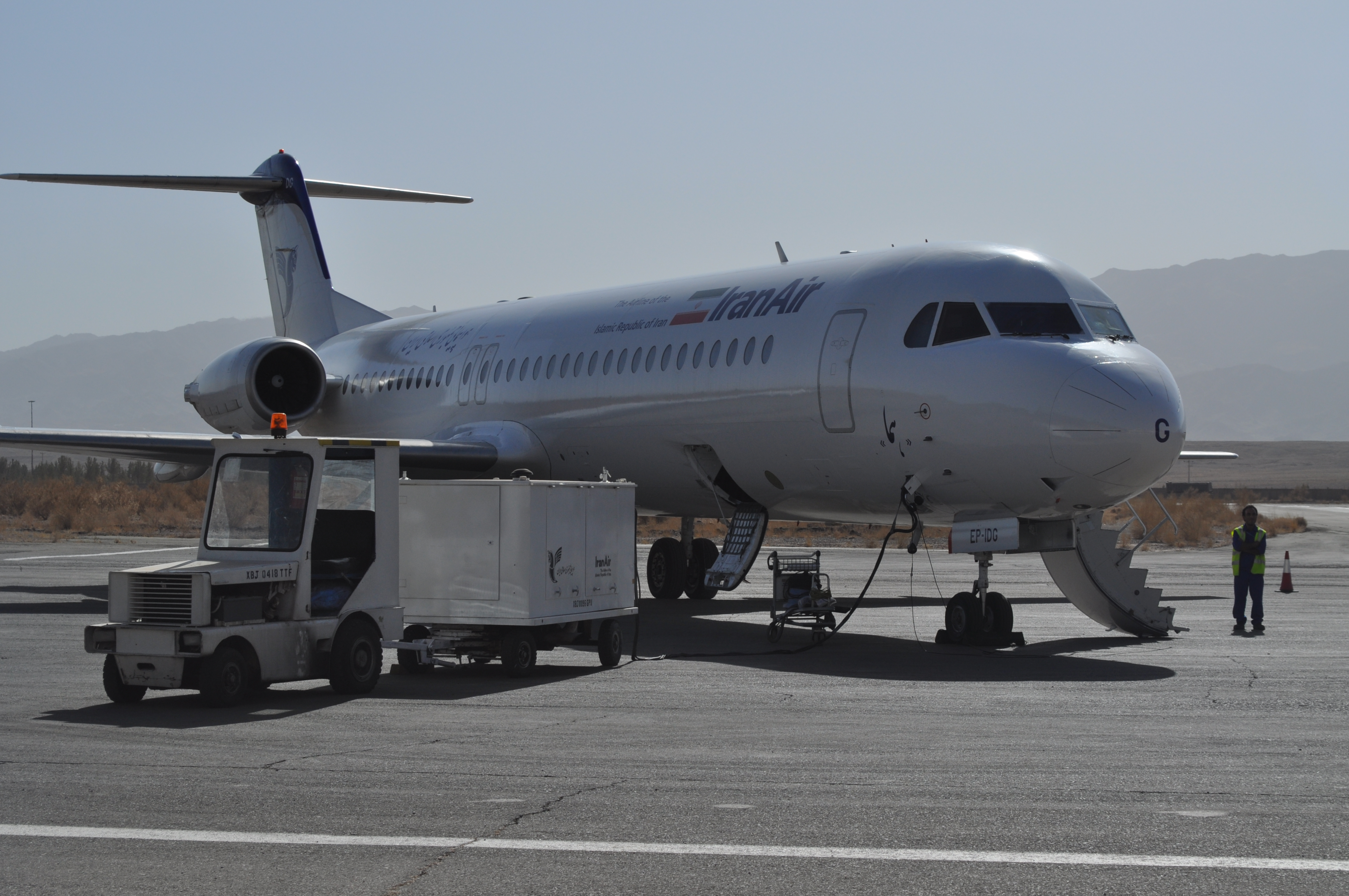 Iranair flight at Birjand Airport